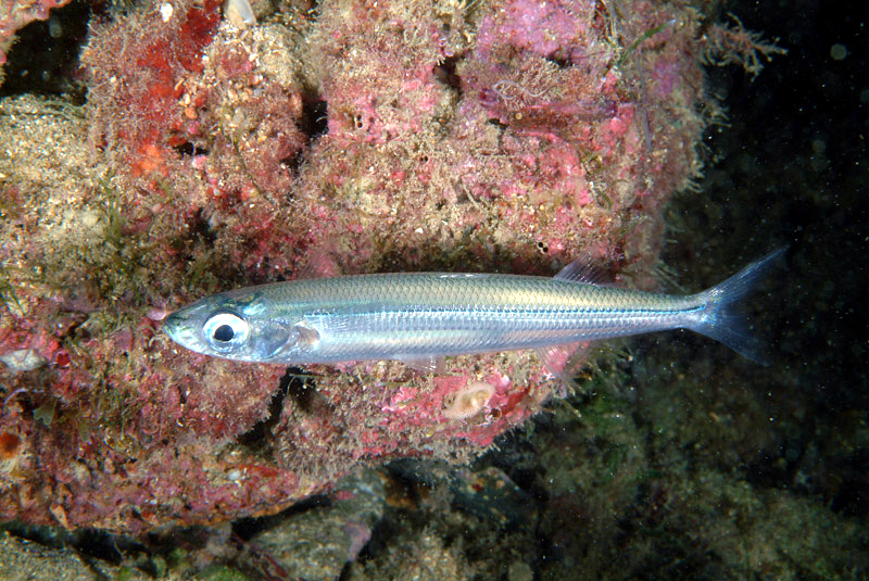 Atherina hepsetus photographed near Tuscany coasts. Photo by Stefano Guerrieri.